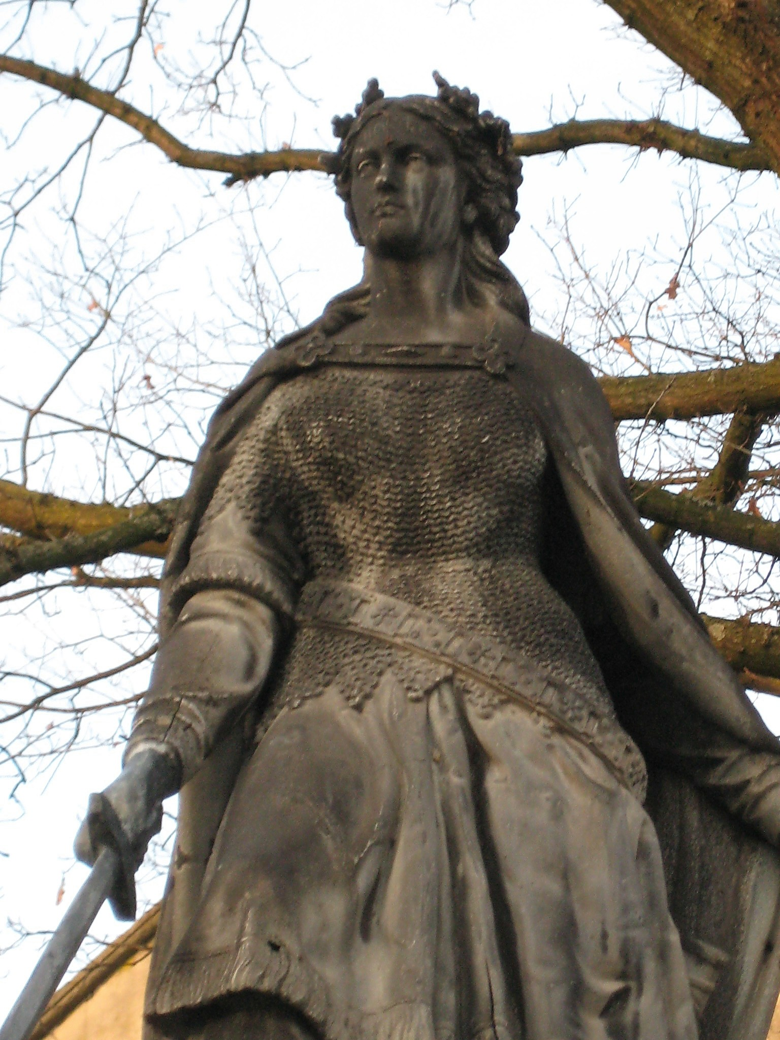 Germania meorial in Bünde, District of Herford, North Rhine-Westphalia, Germany.